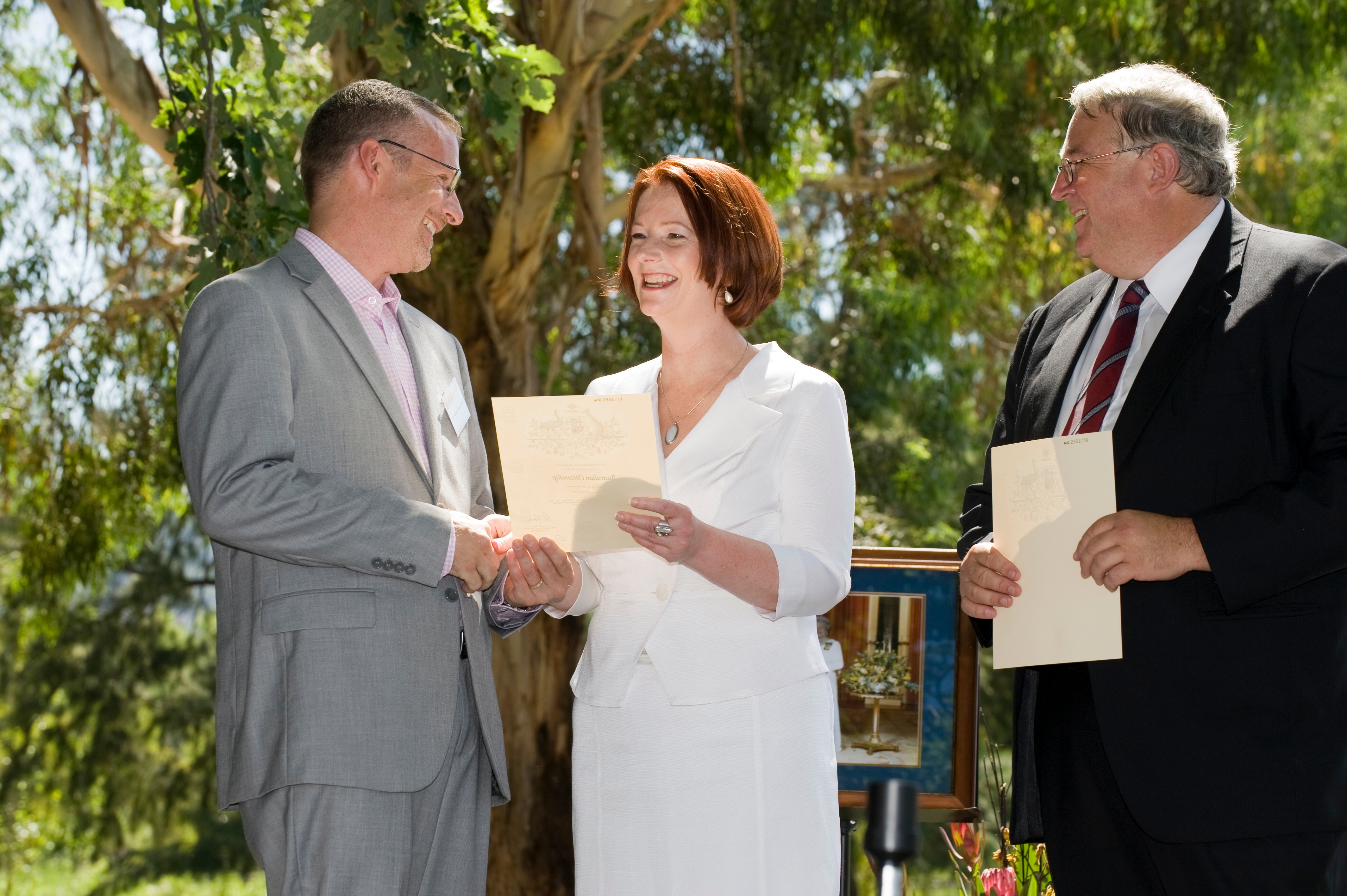 Australian Prime Minister, Julia Gillard and Department of Immigration and Citizenship Secretary, Mr Andrew Metcalfe hand out Citizenship Certificates to new Australian Citizens.